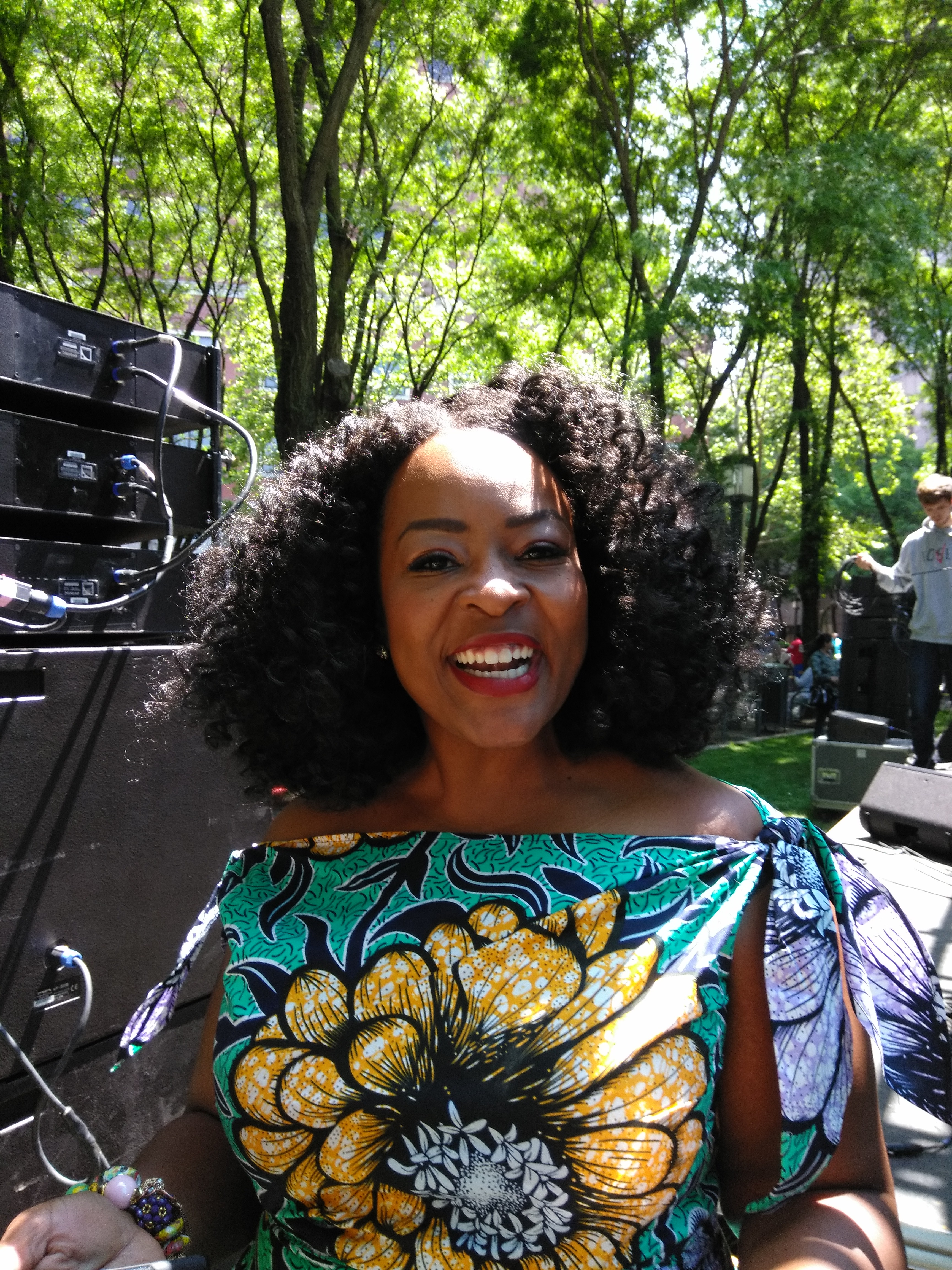 Quiana Lynell performing at the R&B Festival at Metrotech in Brooklyn, on June 7, 2018. Photo by Linda Fletcher